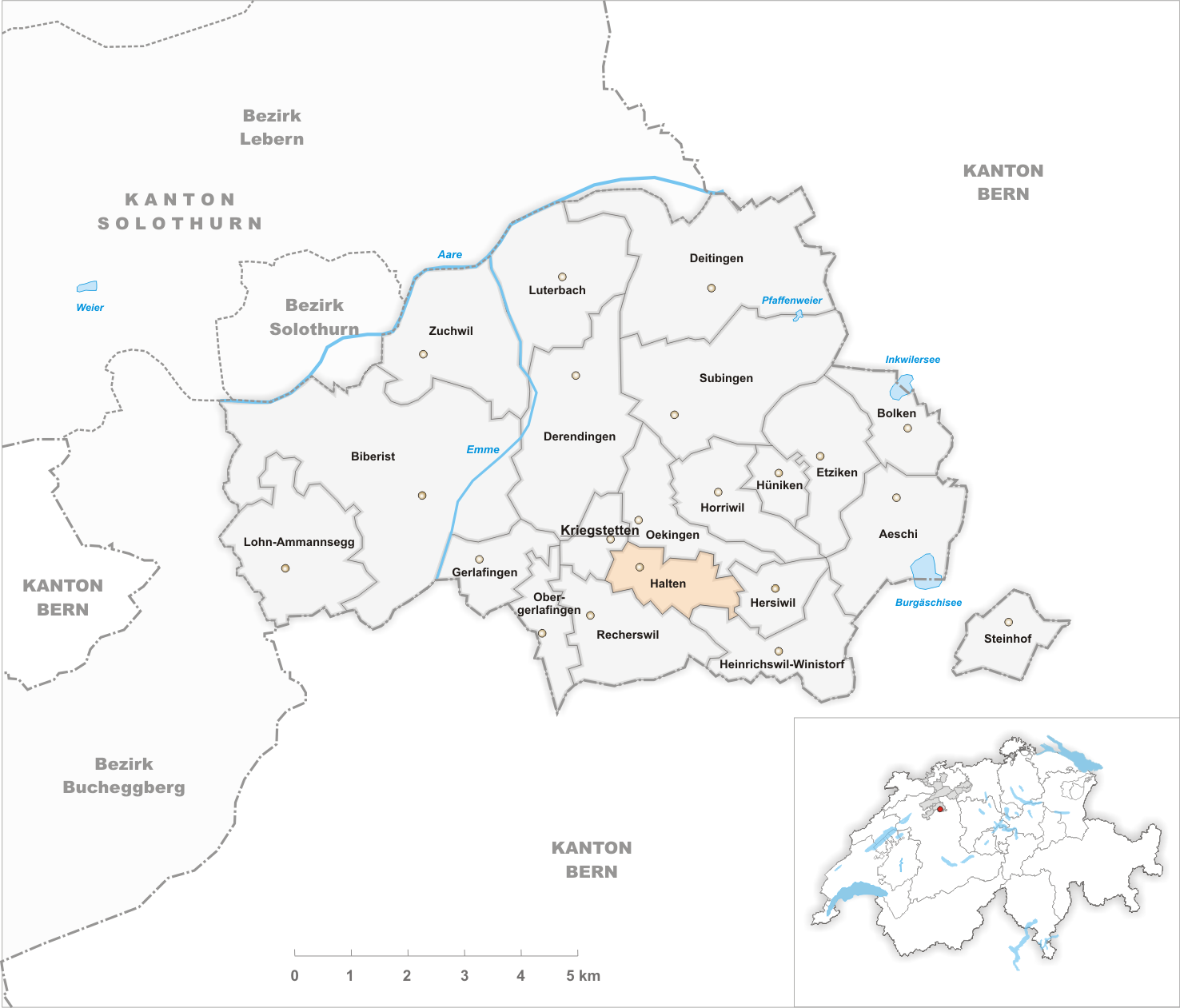 Municipality Halten